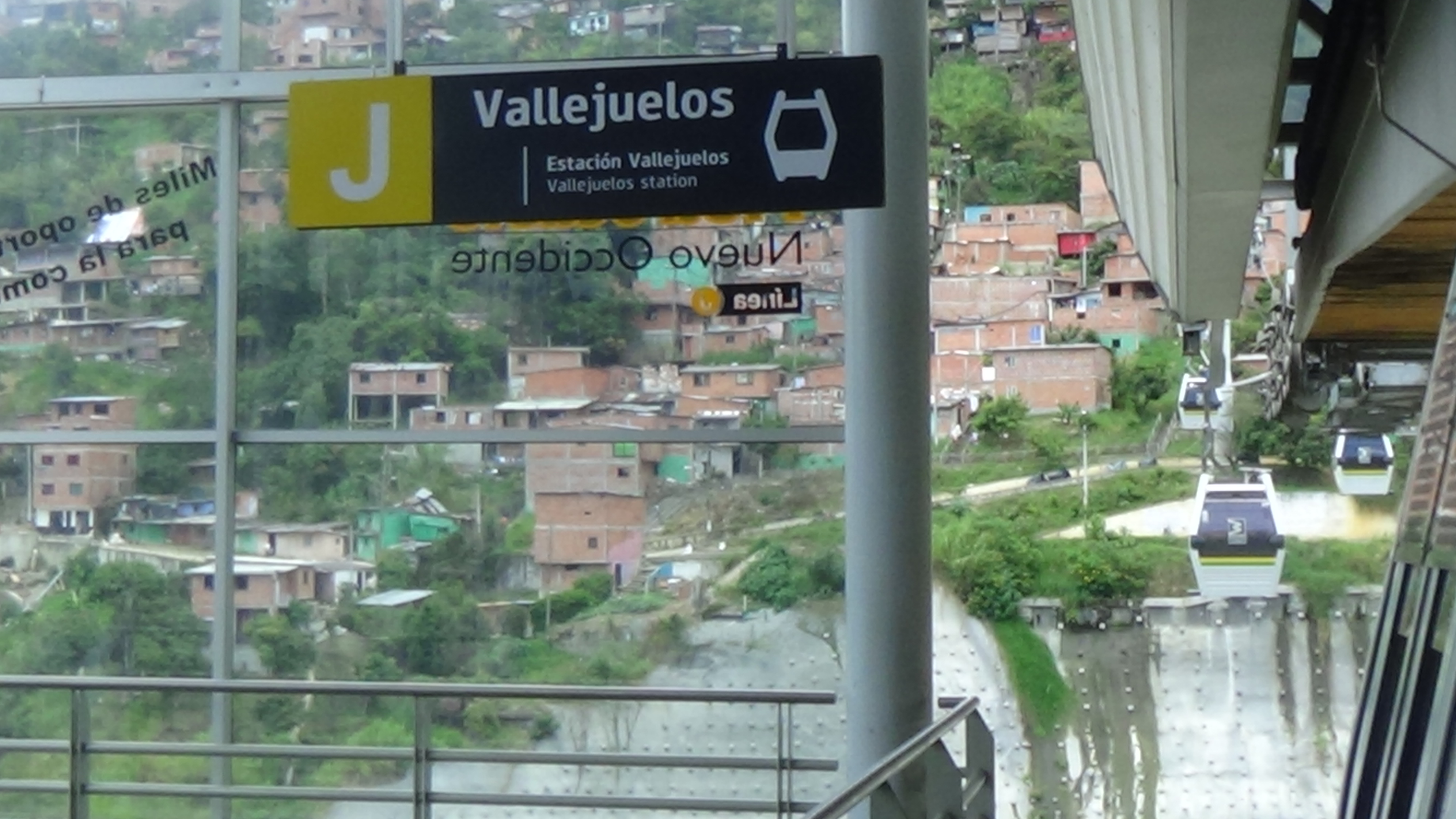 Vallejuelos station, Medellin metro